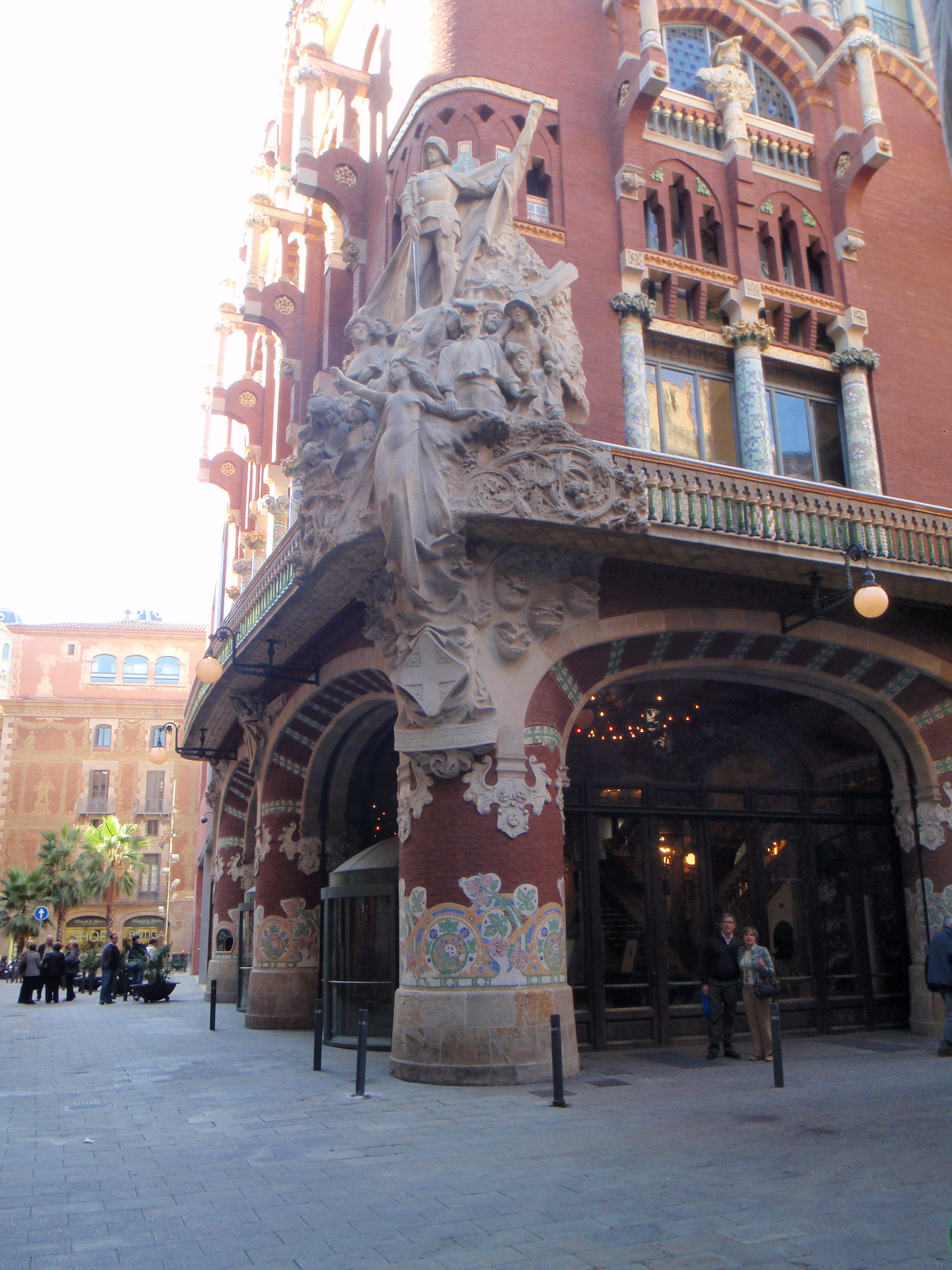 Palau de la Musica Catalana, Barcelona, seen from the corner. Architect: Lluís Domènech i Montaner